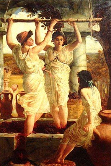 Two maids stand in a tub of grapes, as a girl watches them work